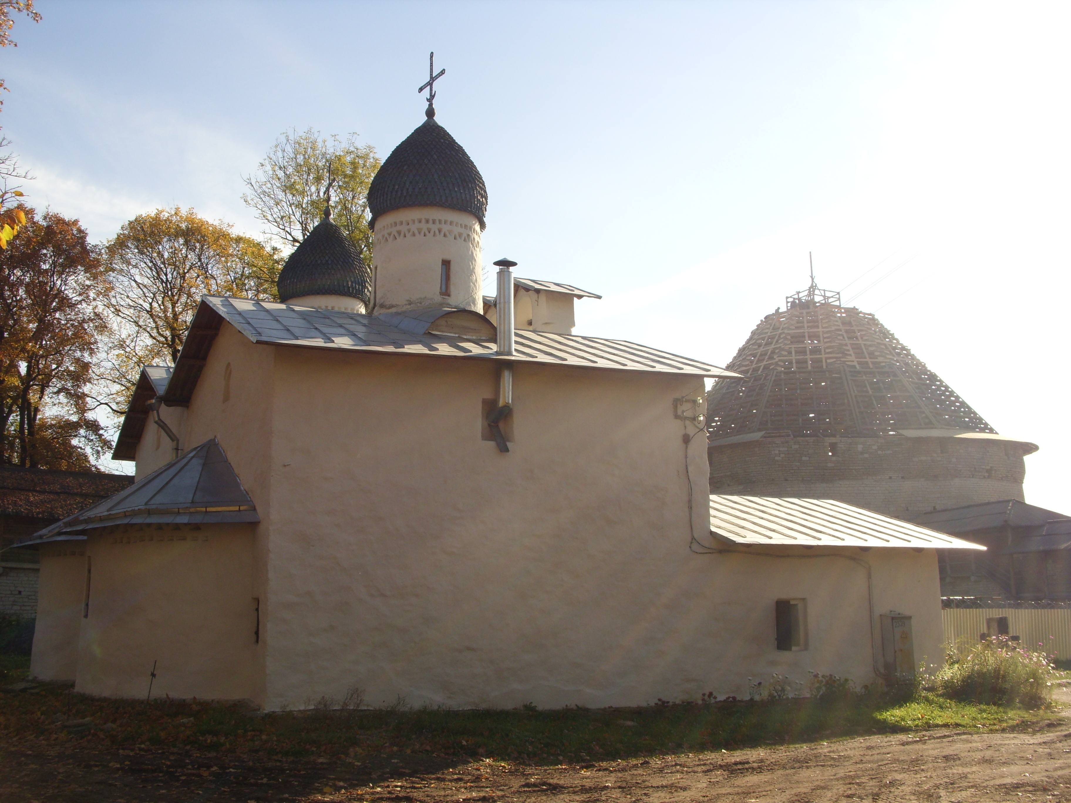 Pokrova ot Proloma i bashnja_okt2010